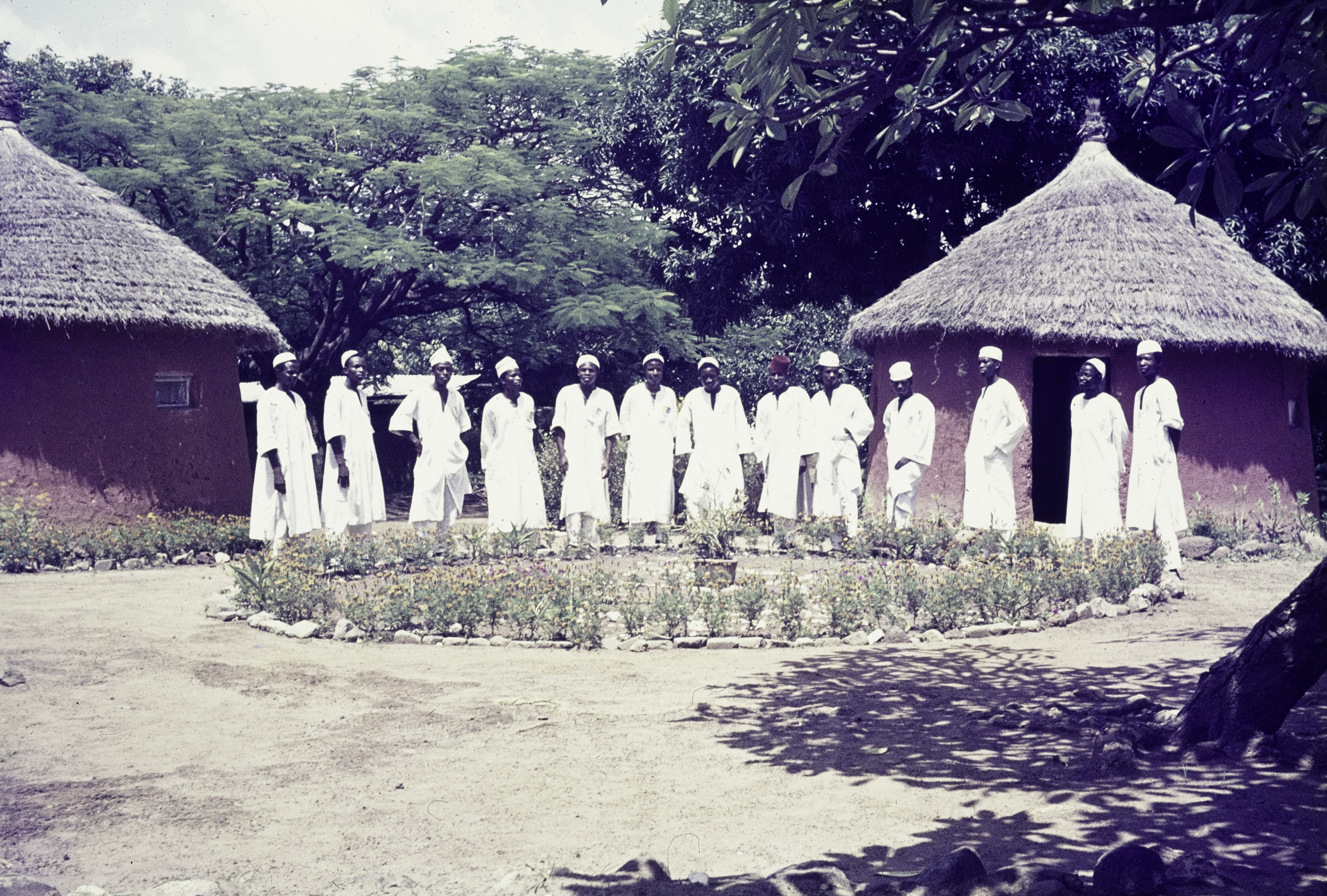 Toro Teachers College. Teachers in training (the older students who live in the red huts) are standing in a row awaiting the weekly inspection of their huts (the pink "house") on the campus by the director. The student in the red cap is the leader.